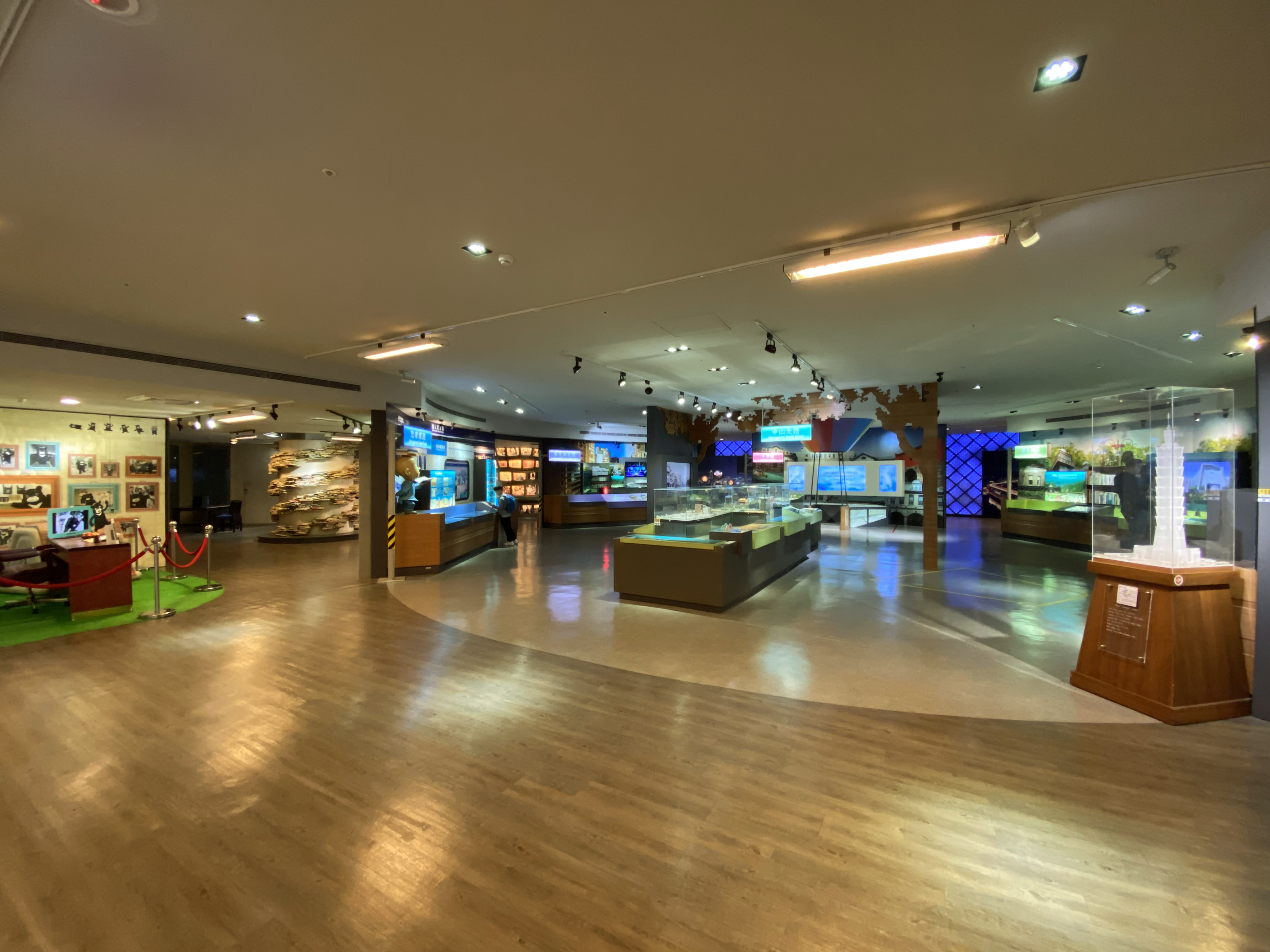 Taipei City Hall Discovery Center of Taipei Level 3